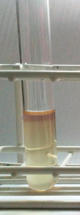 Cosenzaea myxofaciens (formerly classified as Proteus myxofaciens) in Voges-Proskauer broth, showing a negative result after the appropriate chemicals have been added (VP is a test used to detect acetoin produced by bacteria)